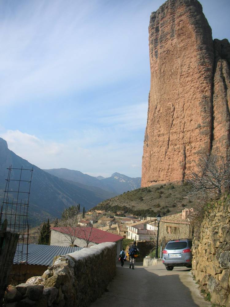 Riglos, the town below Mallos de Riglos